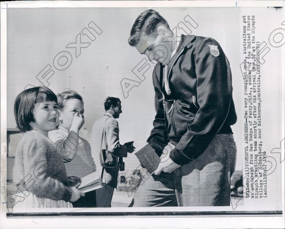 1956 Pro Wrestling Hall of Fame US Olympic Team Dan Hodge Press Photo